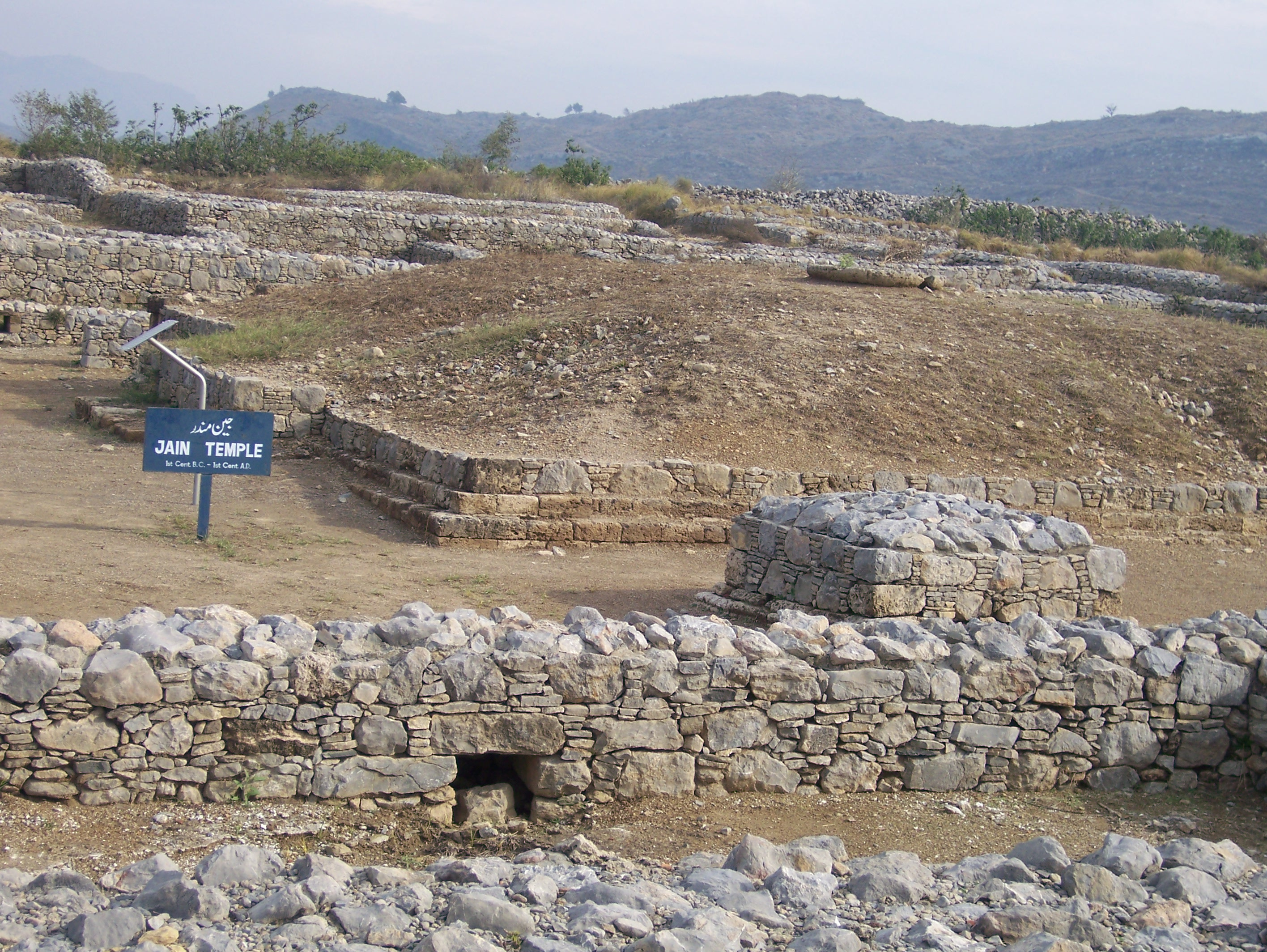 A Jain Temple — at Sirkap, theIndo-Greek archaeological site. Located near ancient Taxila — in Punjab Province, Pakistan.